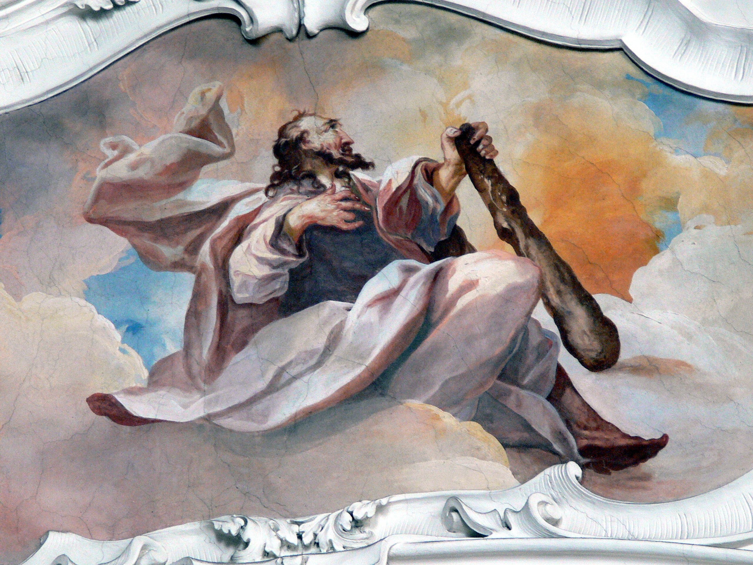 Niederaltaich abbey church ( Lower Bavaria ). Fresco at ceiling of the nave: Saint Jude Thaddaeus ( apostle ).